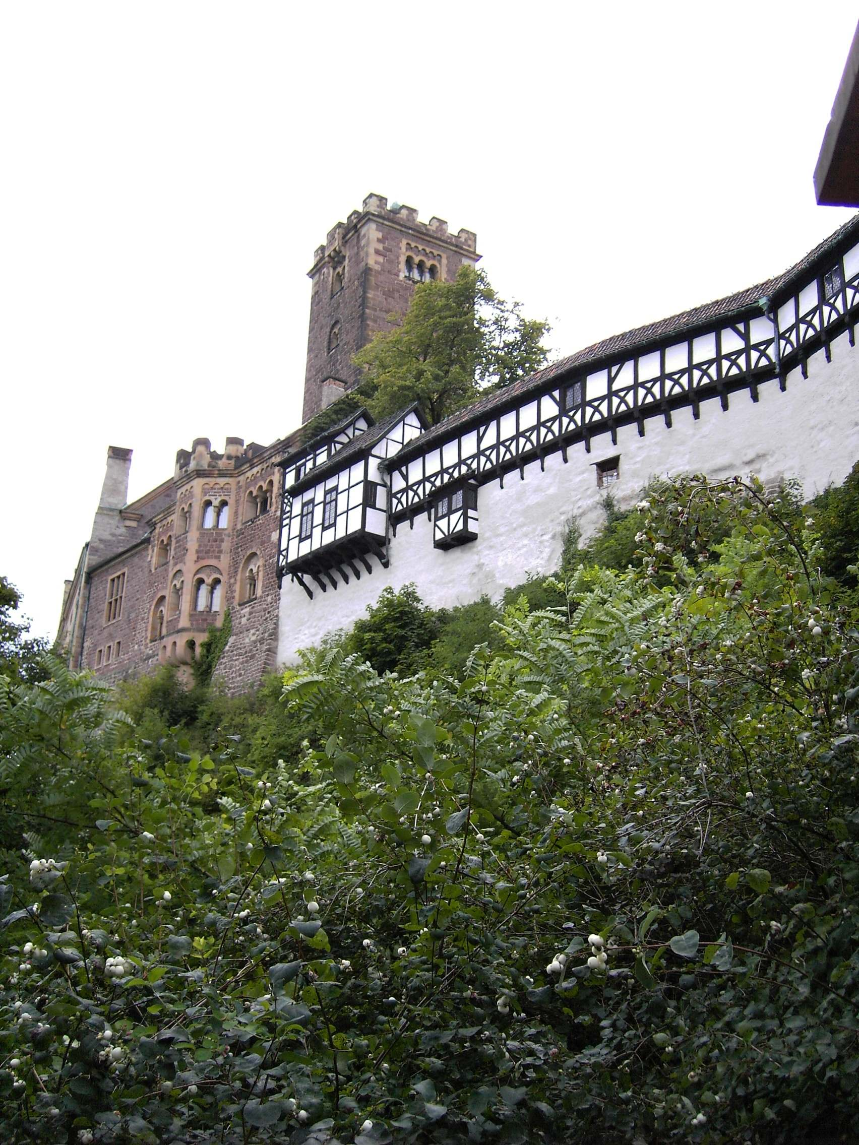 Wartburg, view from the valley.